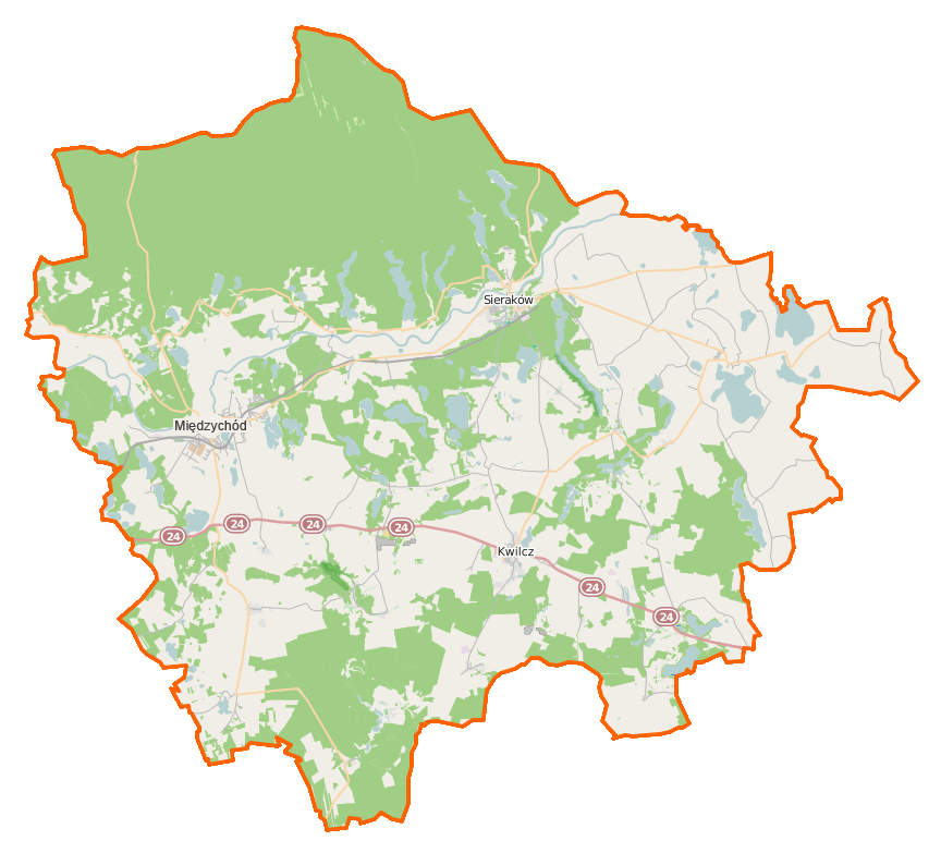 Map of Powiat międzychodzki, Poland This map of Powiat międzychodzki was created from OpenStreetMap project data, collected by the community. This map may be incomplete, and may contain errors. Don't rely solely on it for navigation. Border coordinates52.765415.7592←↕→16.353152.4393